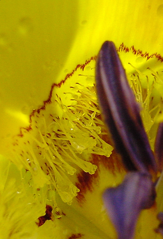 Description: Calochortus clavatus (Club-hair Mariposa lily), closeup of corolla hairs Photo taken by: Noah Elhardt